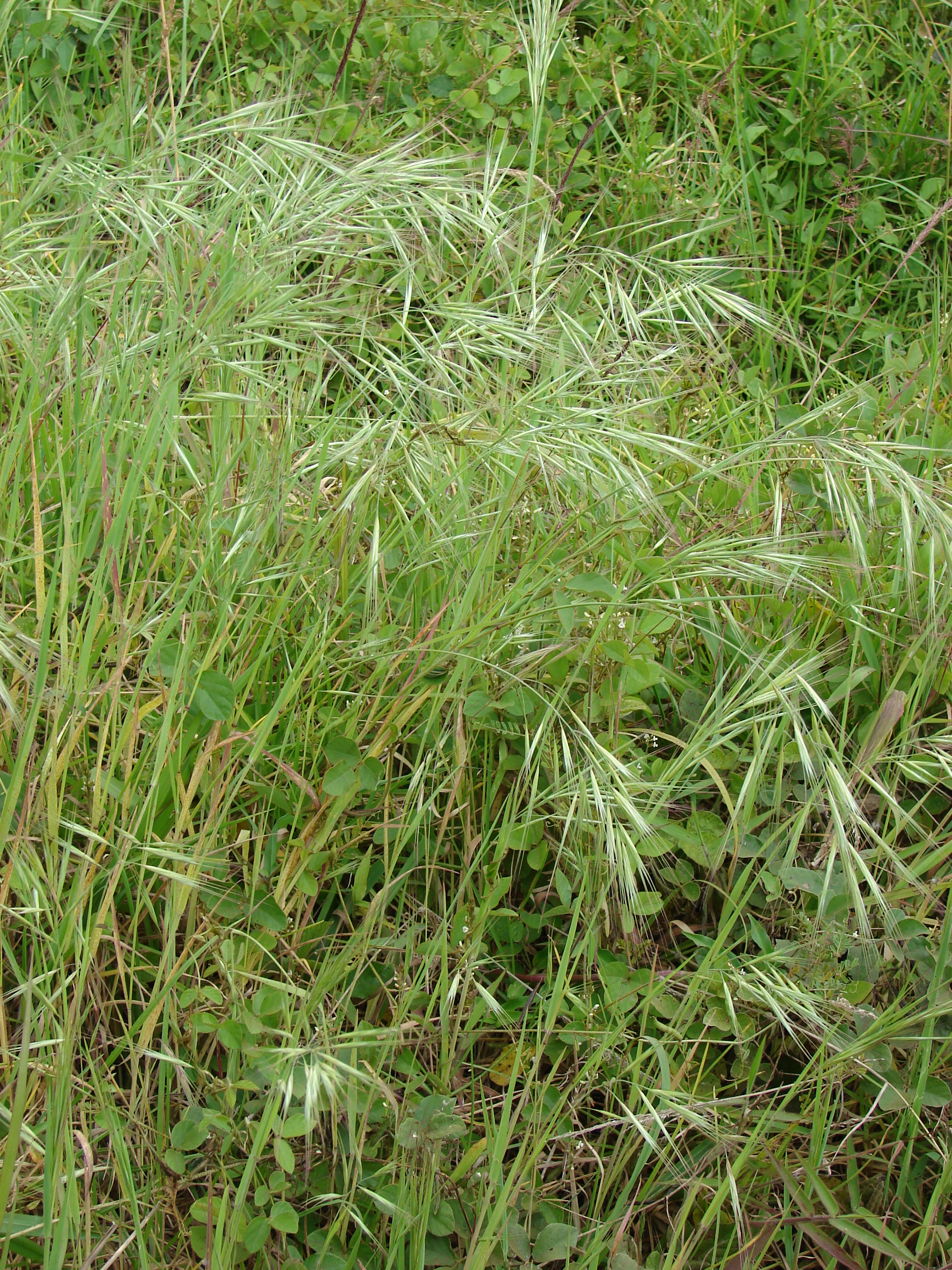 Bromus diandrus (Ripgut grass) Seeding habit at Lower Kula Rd Kula, Maui, Hawaii. April 26, 2009 #090426-6366 Image Use Policy Also known as Bromus rigidus.